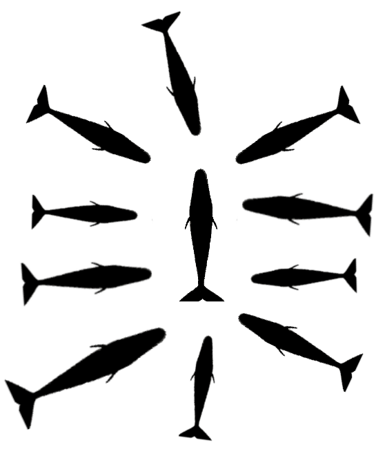 Marguerite formation in whales (especially sperm whale)